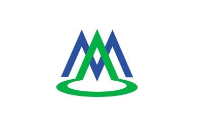 Flag of Minamialps Yamanashi